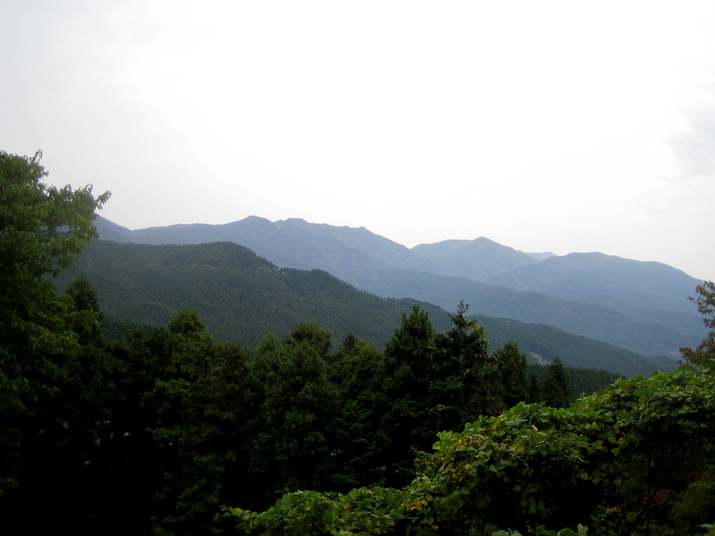 Sefuri Mountains's main ridge seen from the east, in Kyushu, Japan.